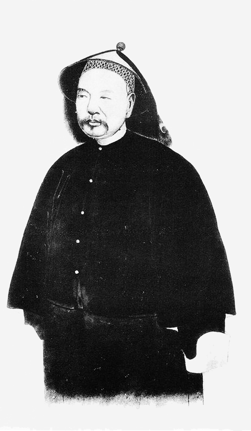 Yuan Chang